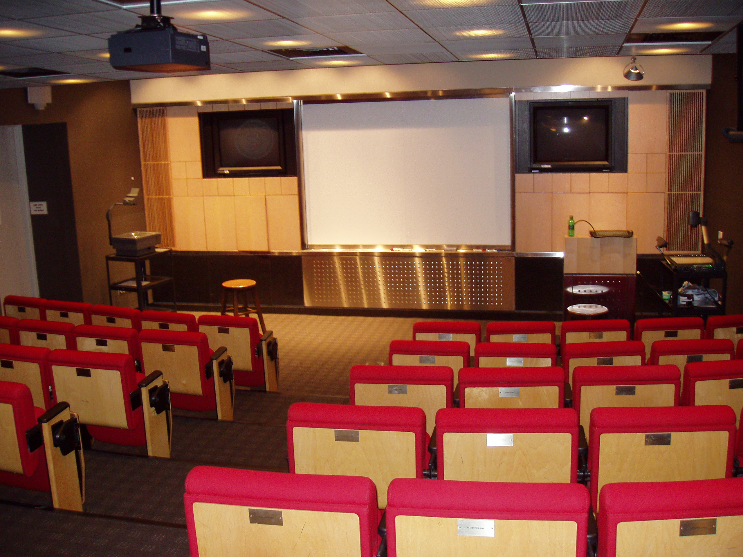 This is a picture of the Adams Center at the Illinois College of Optometry and Illinois Eye Institute.